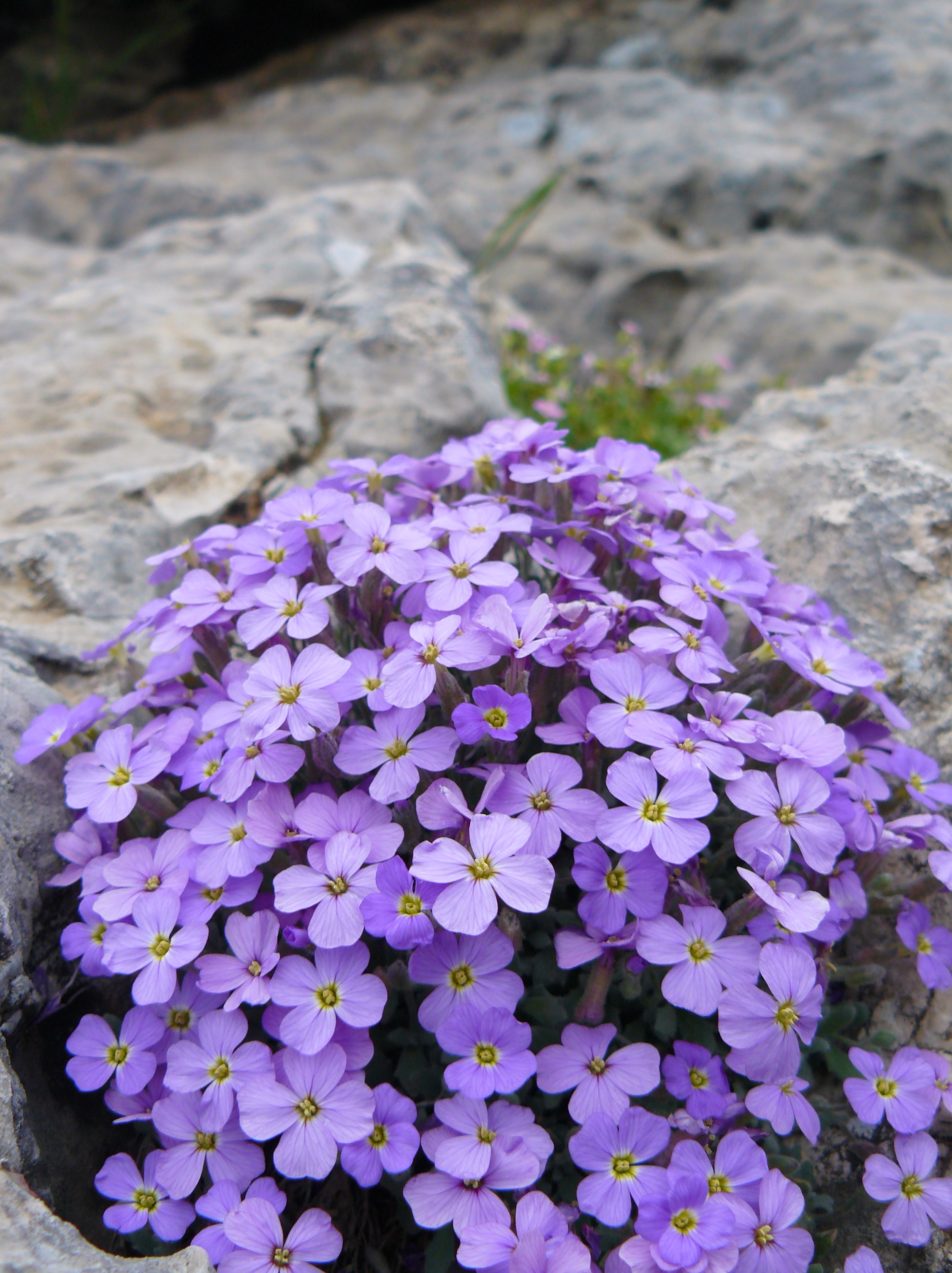 Purple rock cress growing in its natural habitat at 1100 meters above sea level in the mountains of Tartej, Lebanon